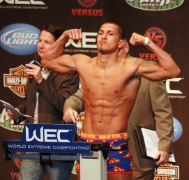 Anthony "Showtime" Pettis WEC 53 Weigh-Ins